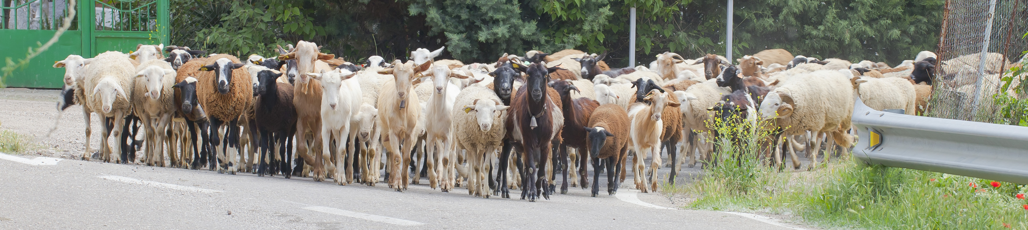 Herd of goats & sheep, Huermeda, Spain